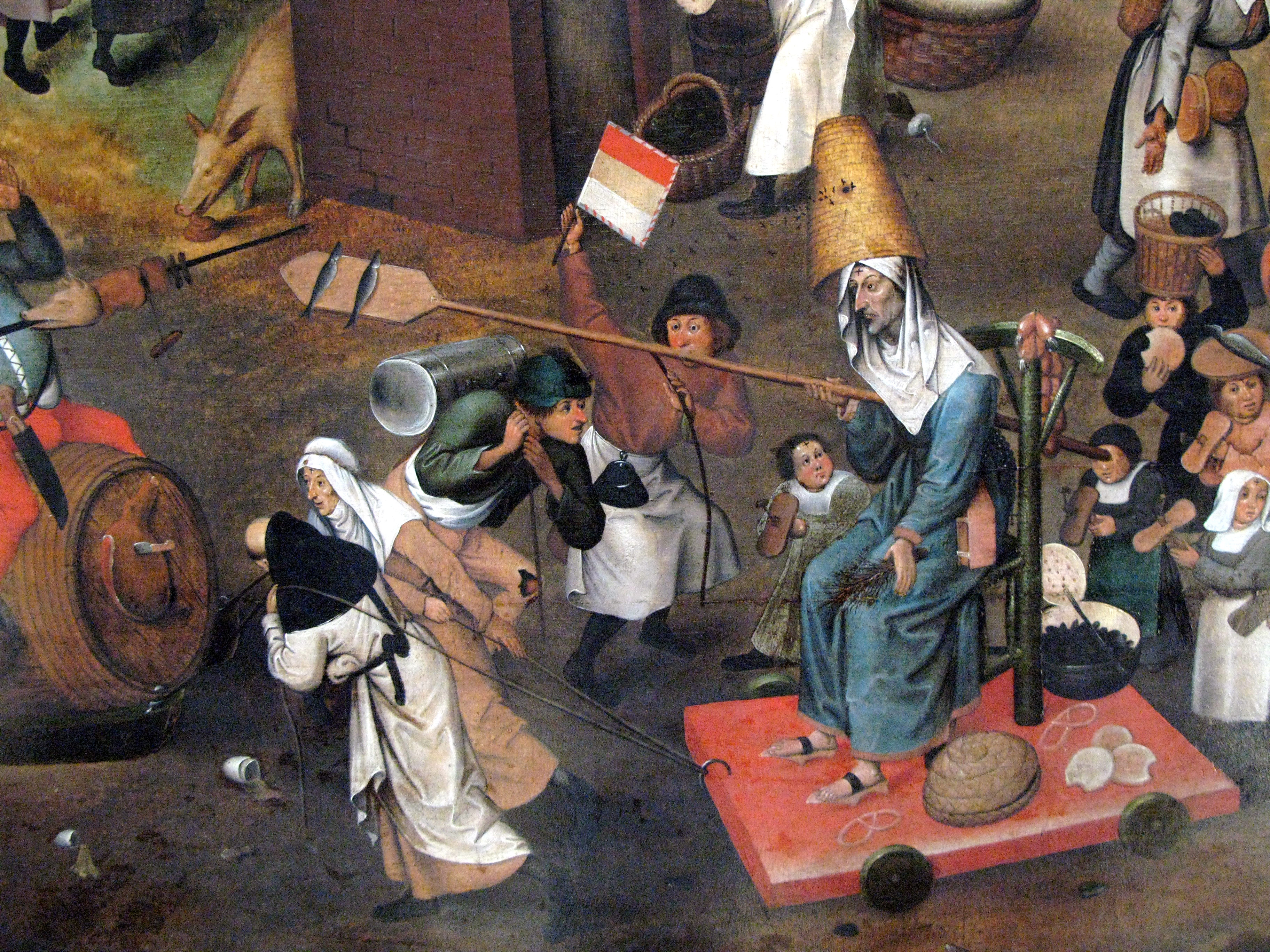 Battle of Carnival and Lent